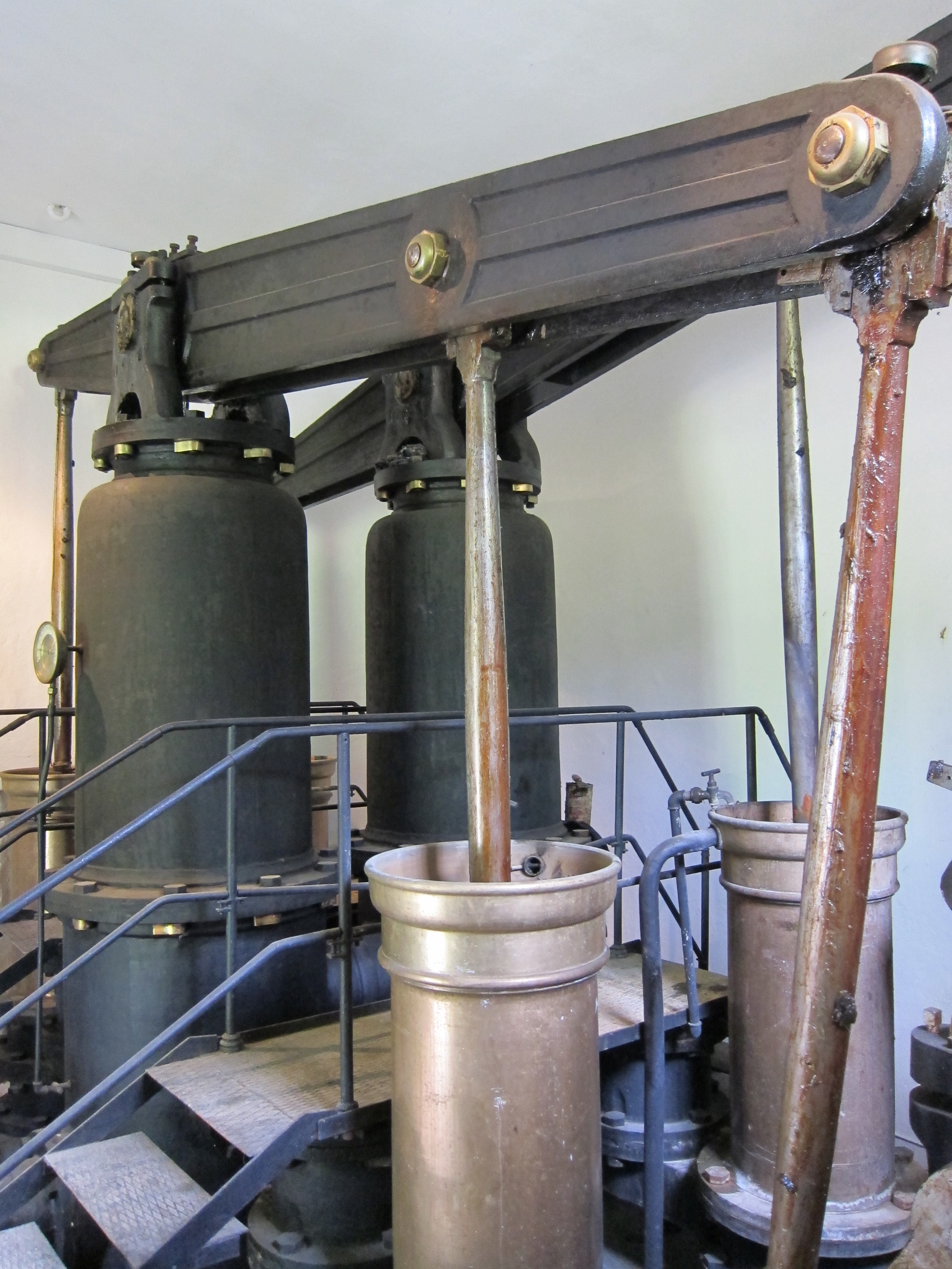 Pumping stations at the Nymphenburg Palace: Green Pump House, eastern works.